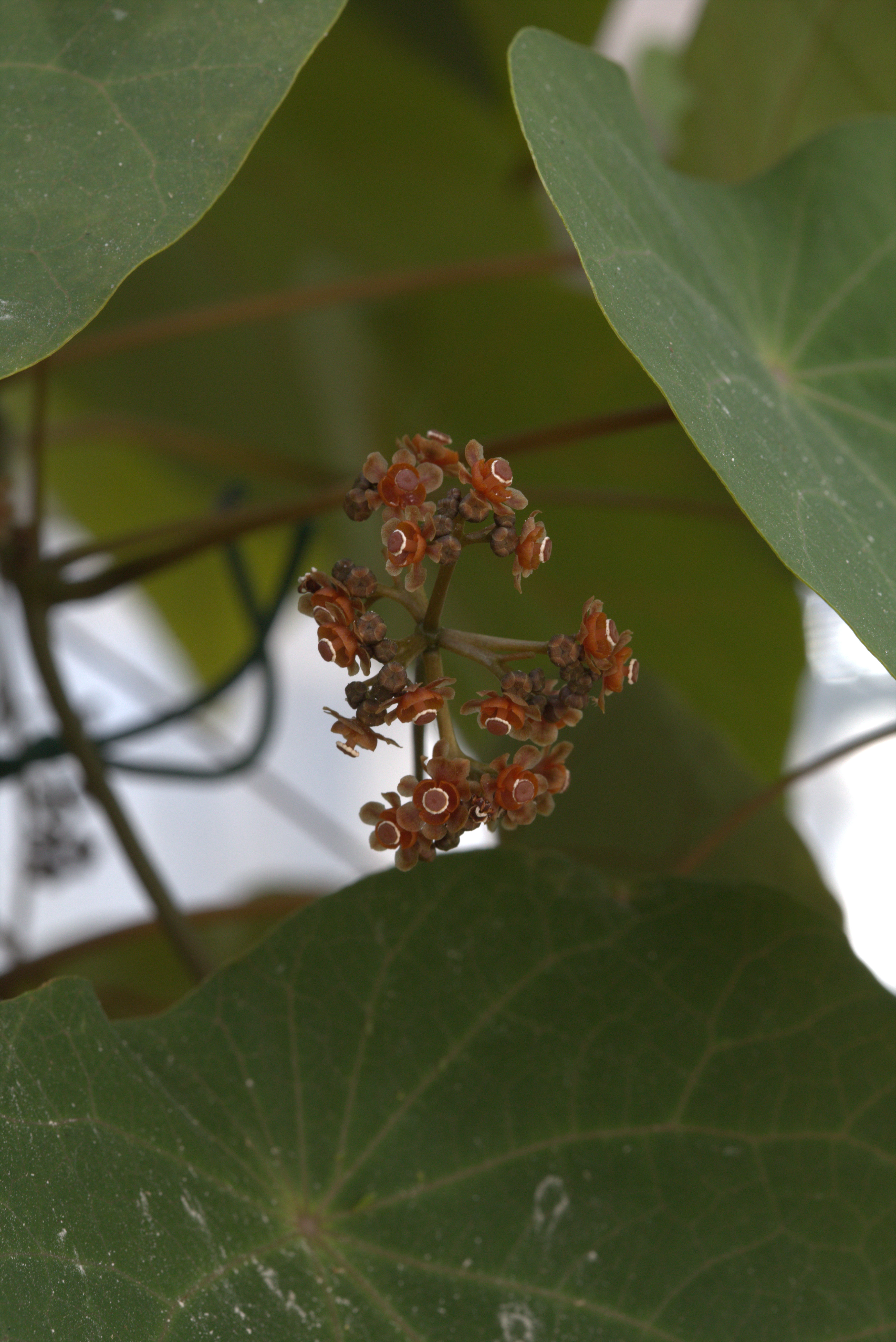 Stephania venosa in Gothenburg Botanical Garden 2015. Plant id: 2008-2136 p G.